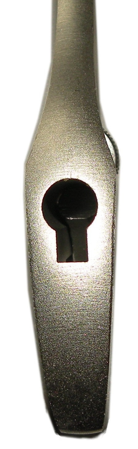 The hole and broached "keyway" in the end of an adjustable wrench. The tang on the moving part of the wrench slides in this "keyway".